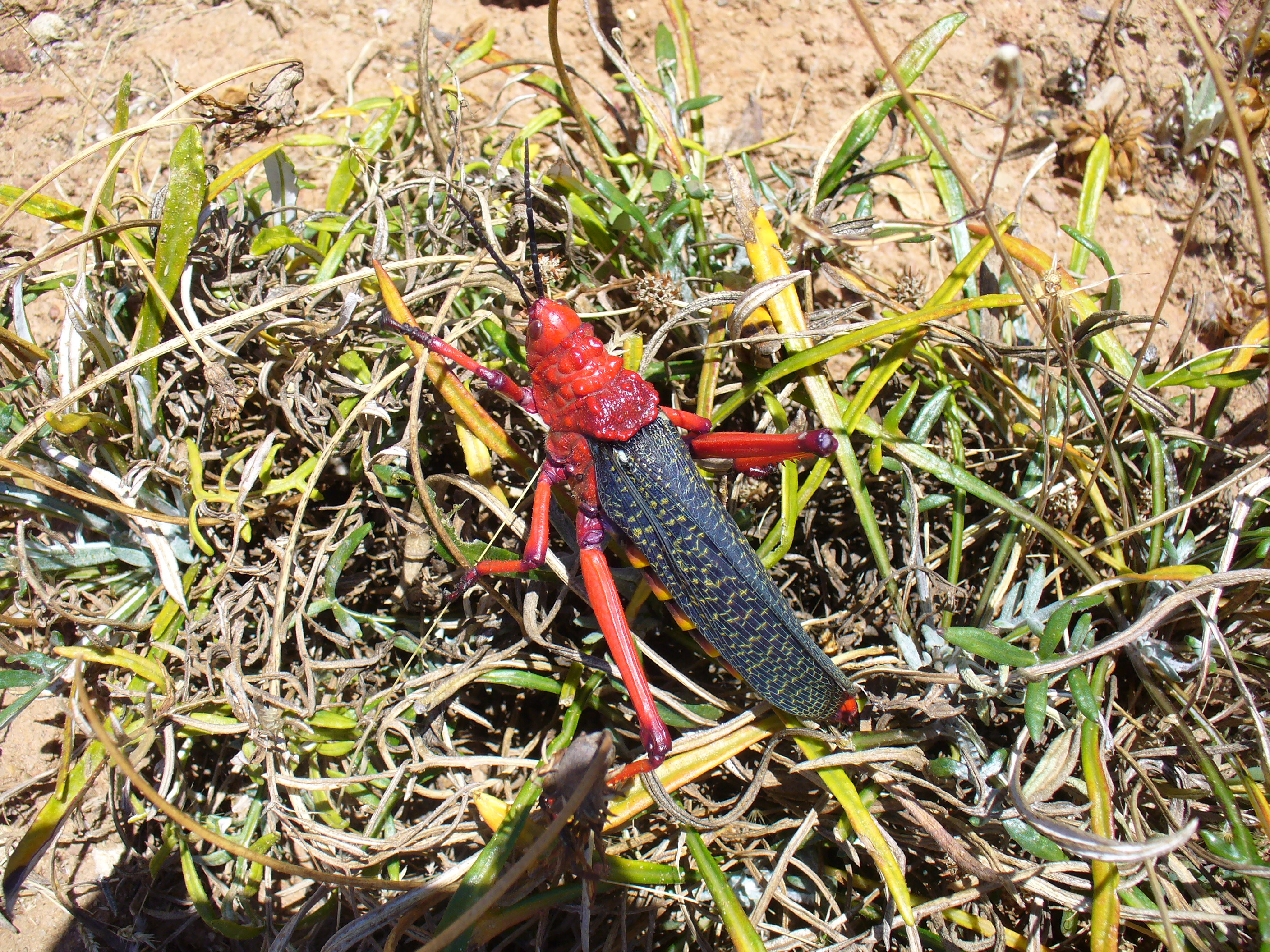 Common Milkweed locust